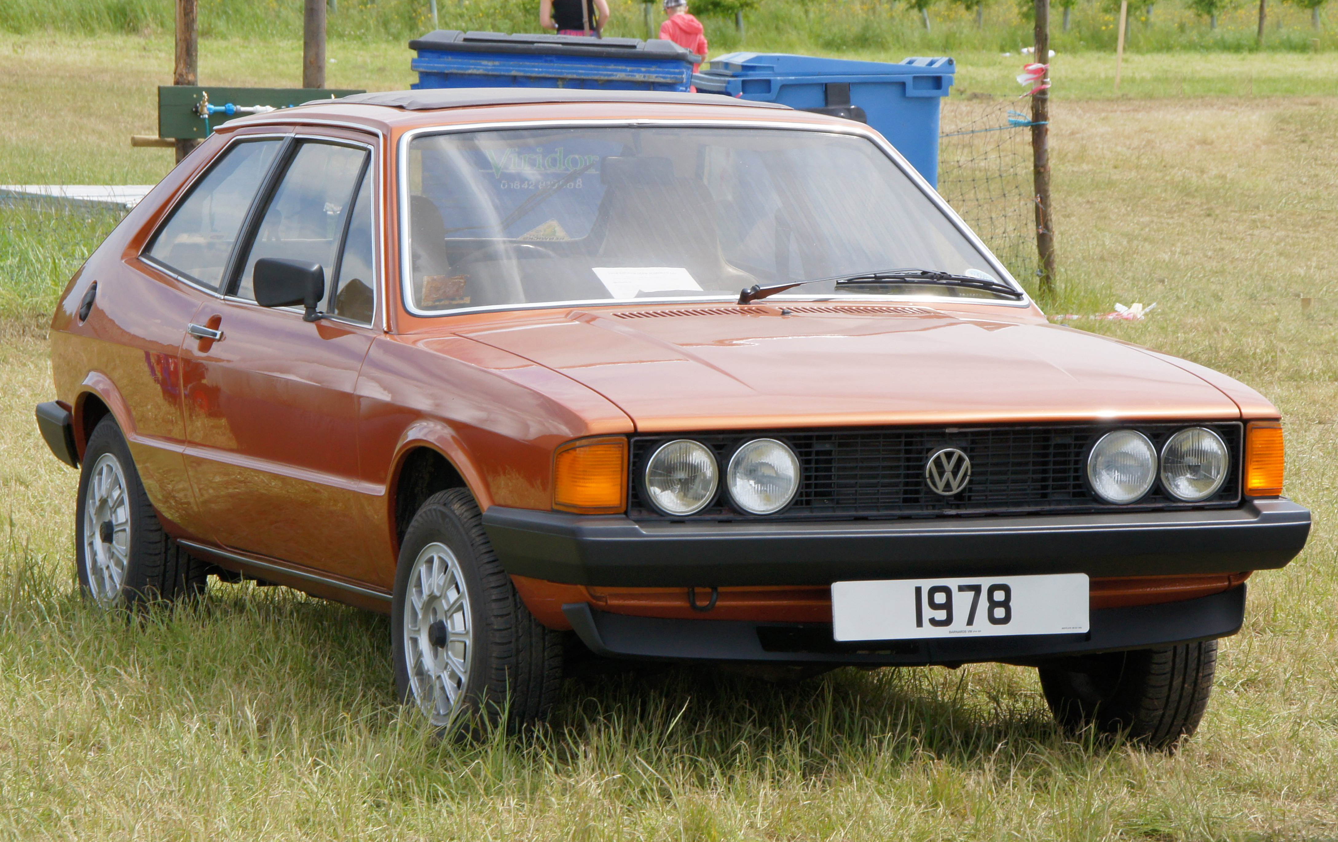 A stock 1978 Scirocco 1